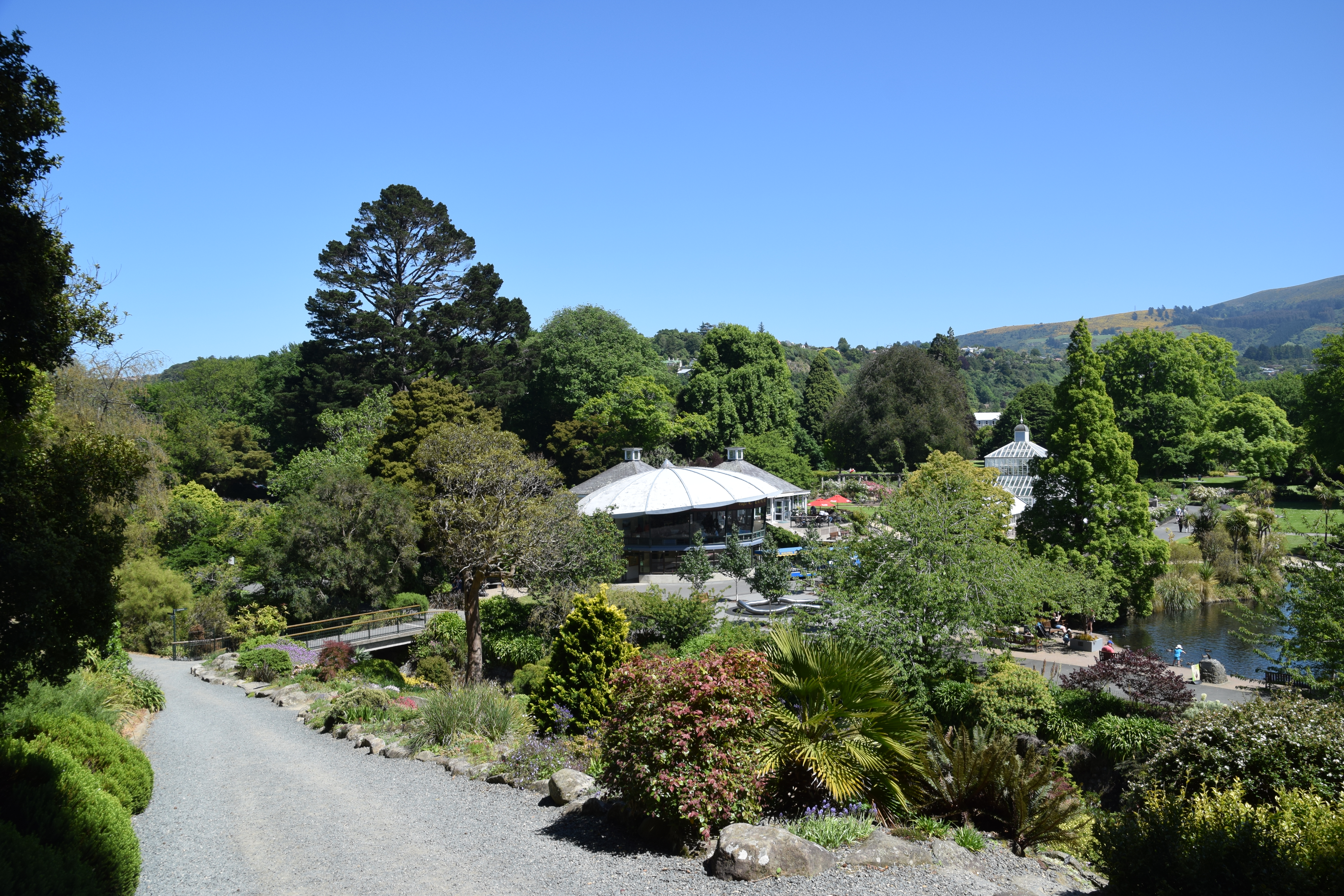 Dunedin Botanic Garden in november 2017, Dunedin, New Zealand